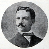 José María Imbert (Le Plessis-Glammoire, France; 1798 – Puerto Plata, Dominican Republic; 1847)